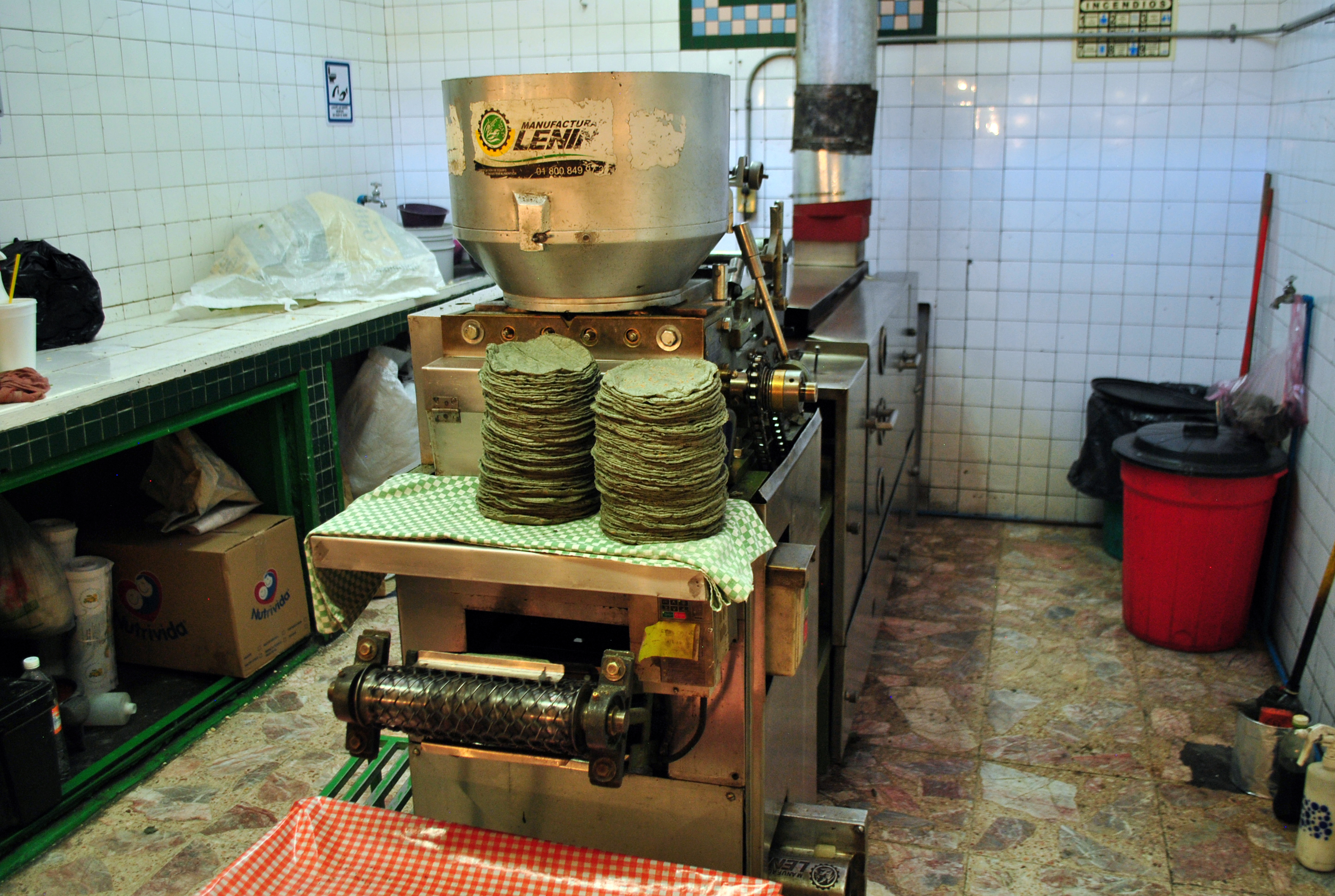 Corn tortilla machine, Mercado de Xochimilco, Mexico City.